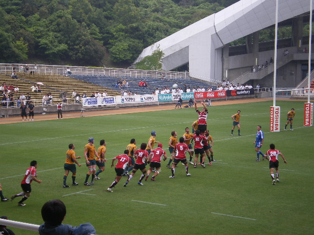 Japan pressing on the Australia A line at the end of the game, won 42-21 by the Australians. Game played at Level-5 stadium, Fukuoka